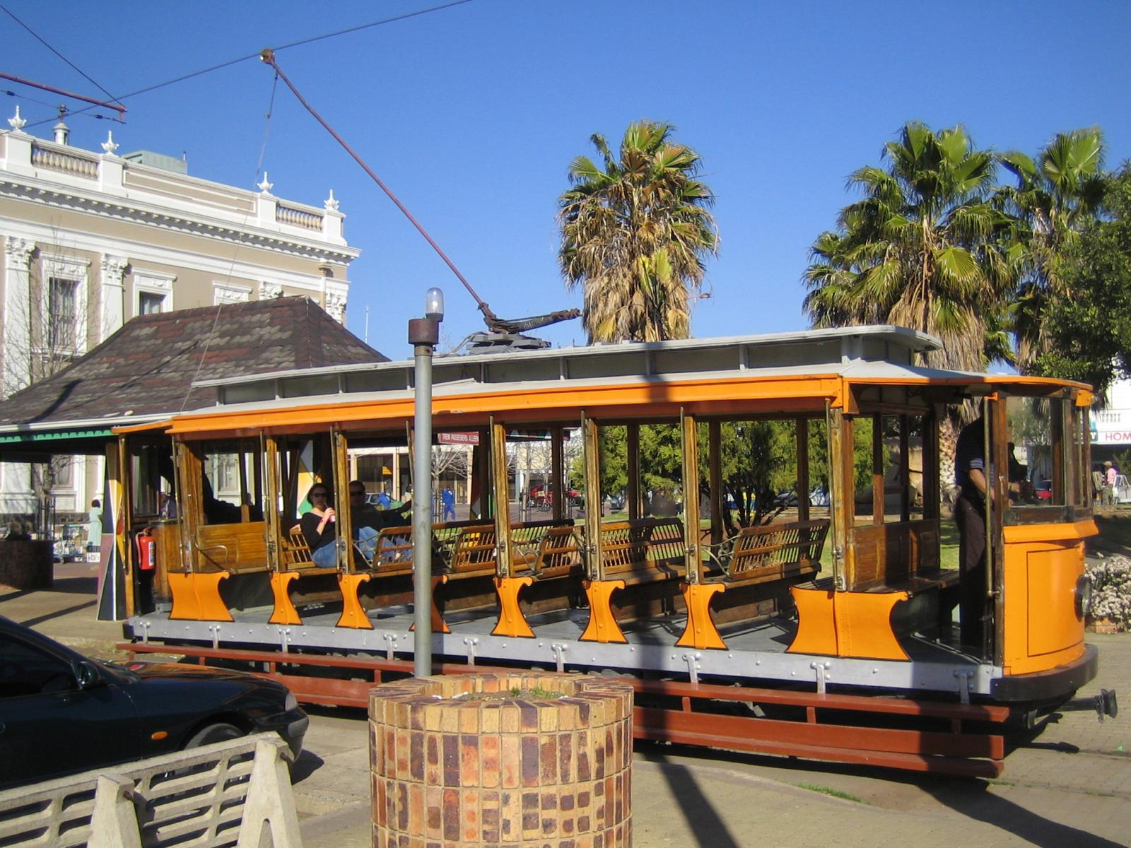 Historical tramway at Market Square in Kimberley, City Hall left at background.).